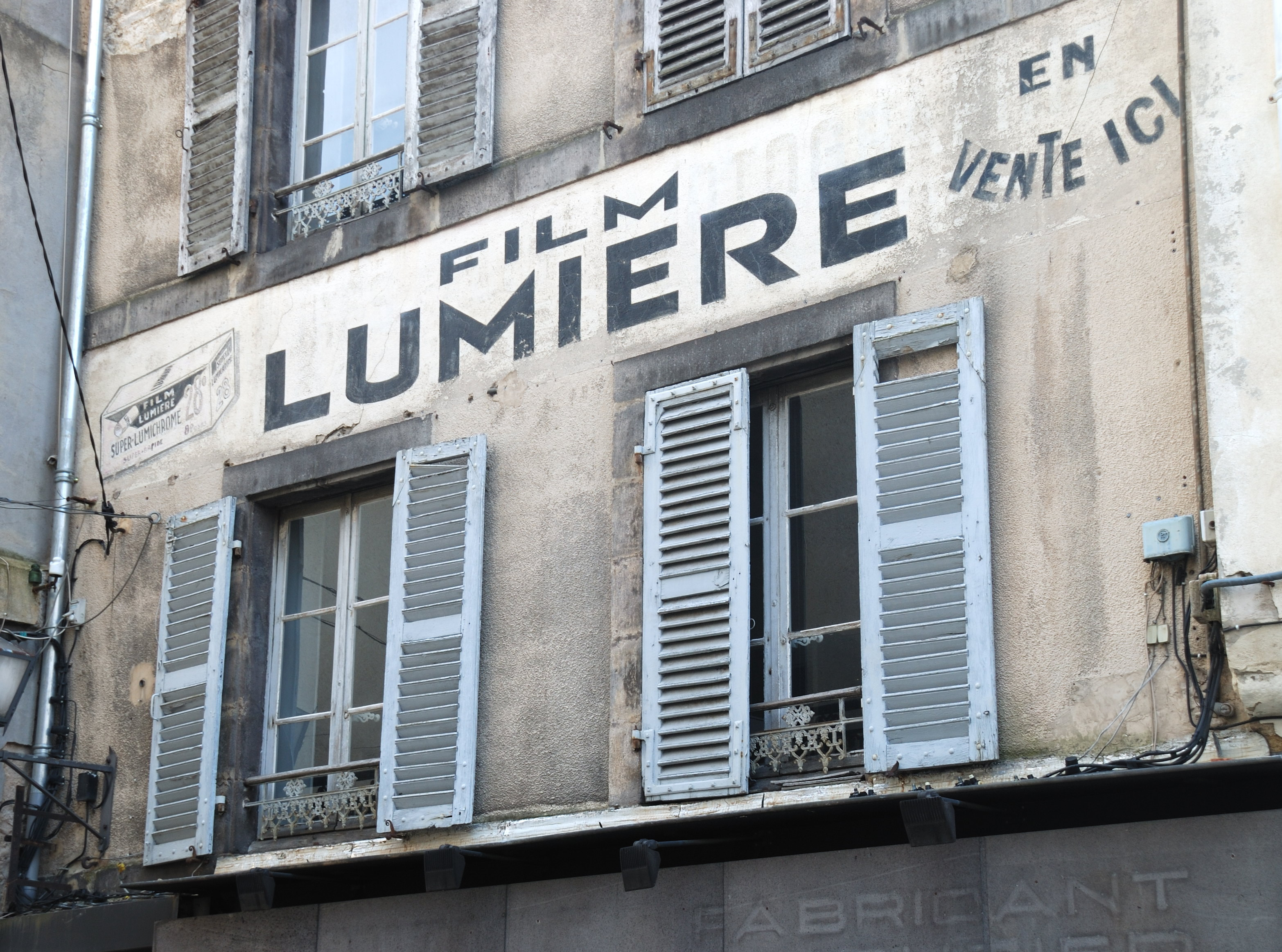 Old advetisement for the Lumière film (Thiers, Puy-de-Dôme, France).